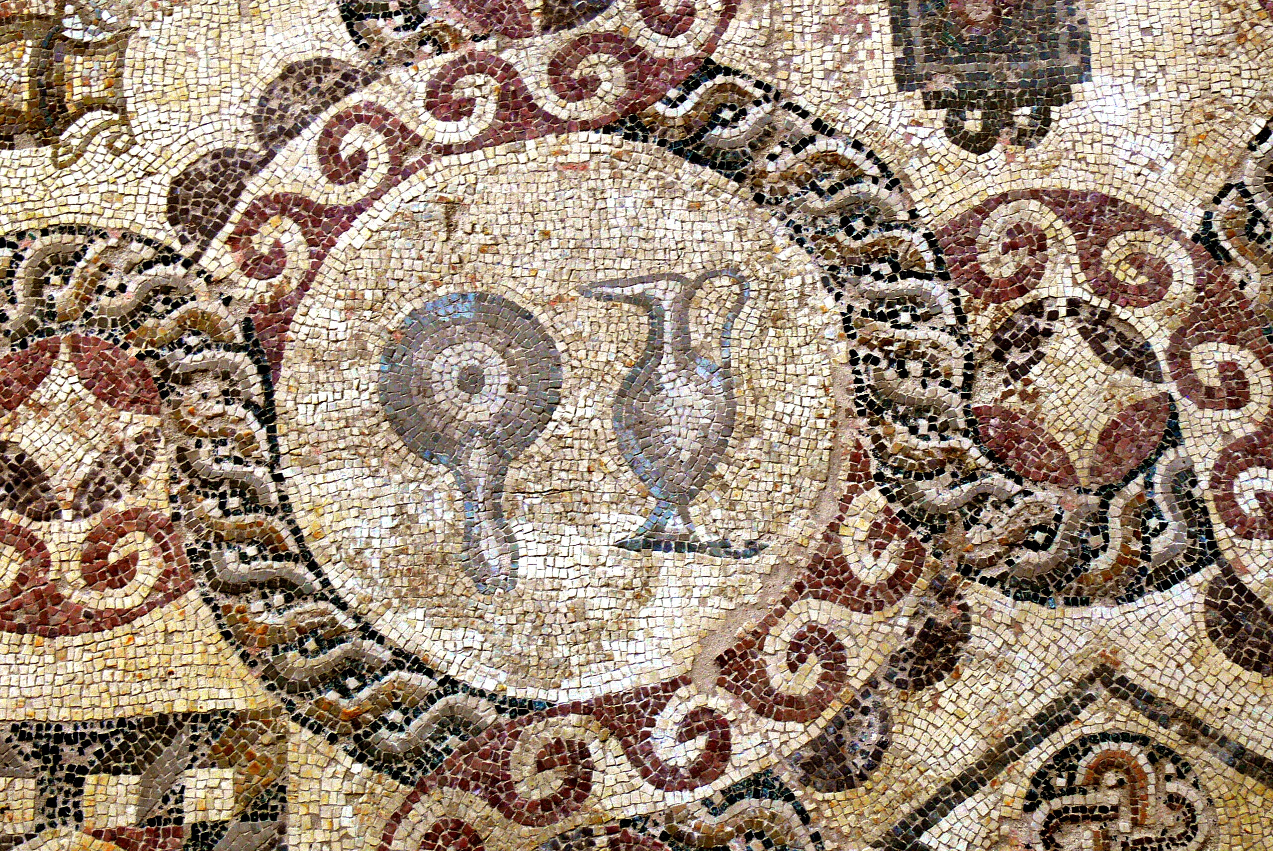 Paphos Archaeological Park. House of Dionysos: Geometrical mosaic with various items - silver jug and mirror ( detail ).